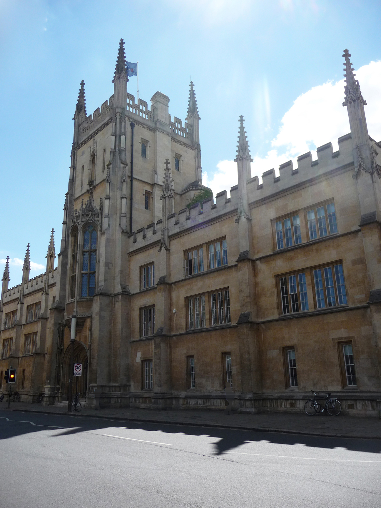 A picture of the Pitt Building in Cambridge, which used to be the headquarters of Cambridge University Press and is still owned by them today.